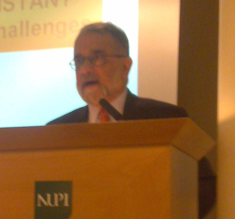 Ahmed Rashid, Pakistani journalist, giving a lecture "What next for Pakistan?" at NUPI - Norwegian Institute of International Affairs - in February 2009